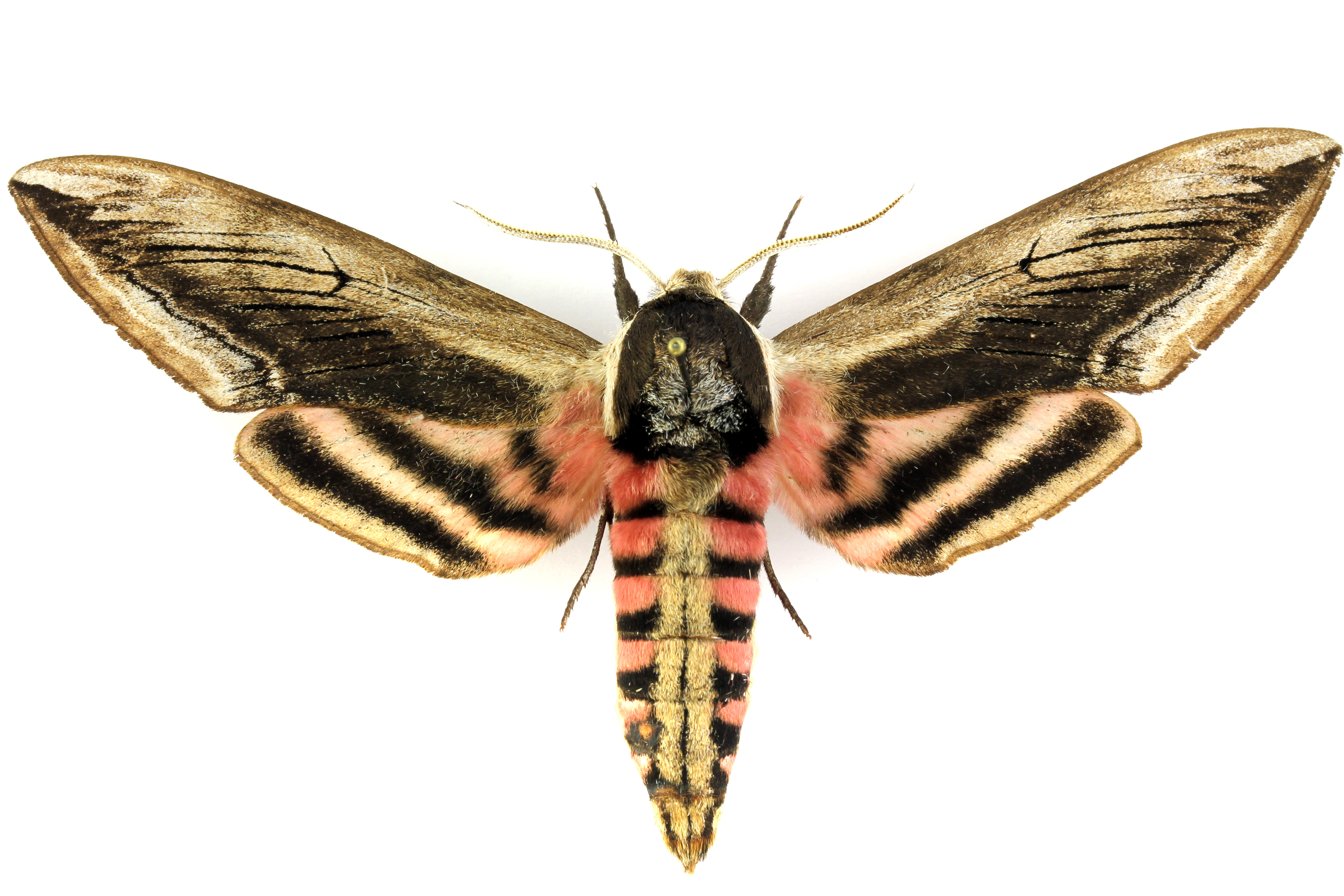 Sphinx ligustri, insect collections SLU, Uppsala